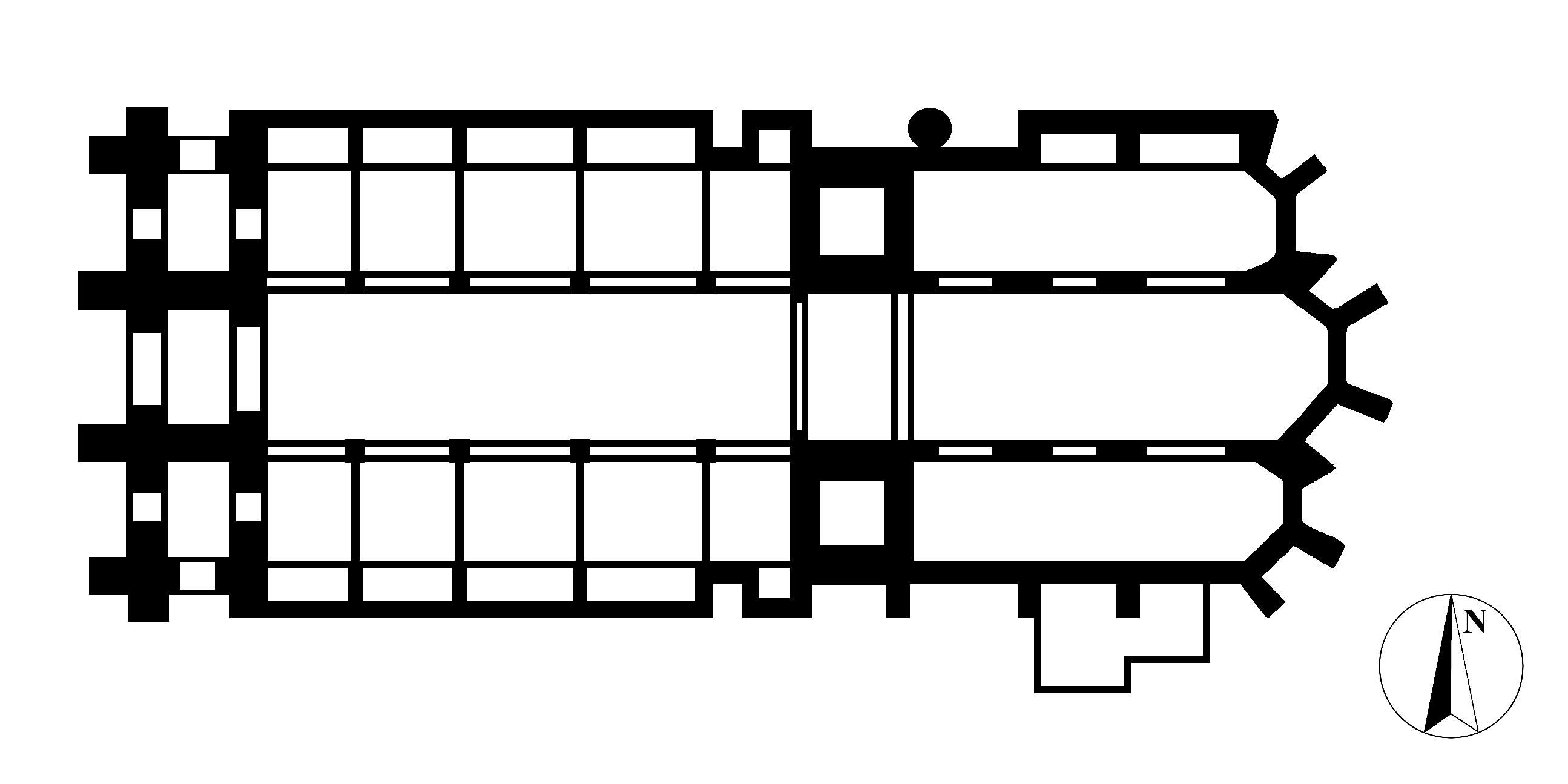 Ground plan (1487) of the the Church Kilianskirche of Heilbronn